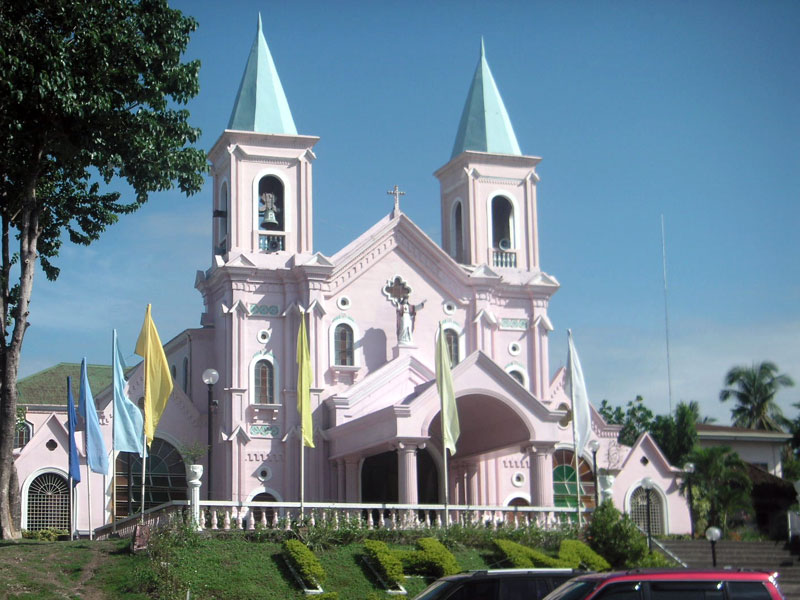 Picture of the church in Minglanilla, Cebu.